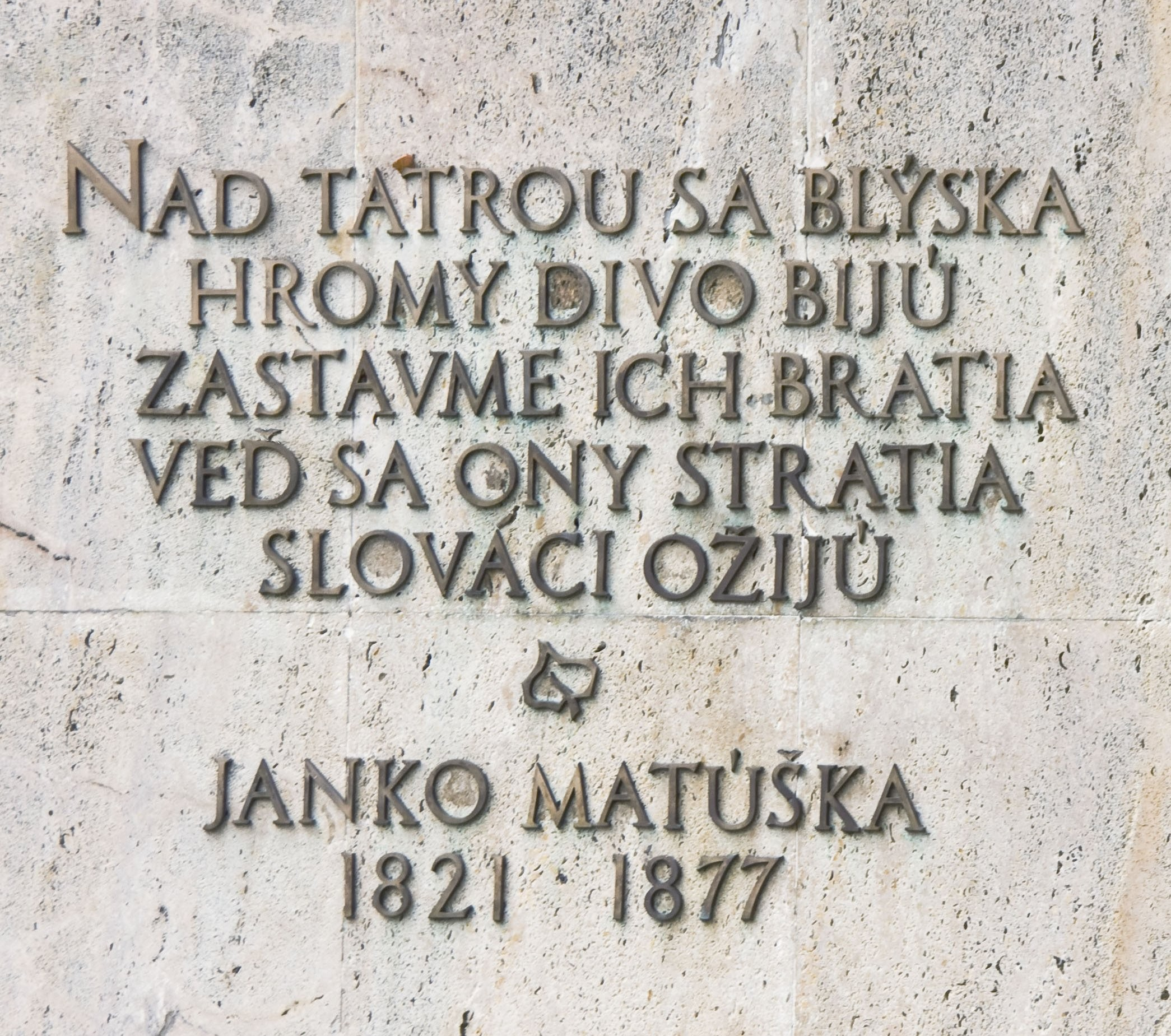 Nad Tatrou sa blyska on memorial of Janko Matuska in Dolny Kubin